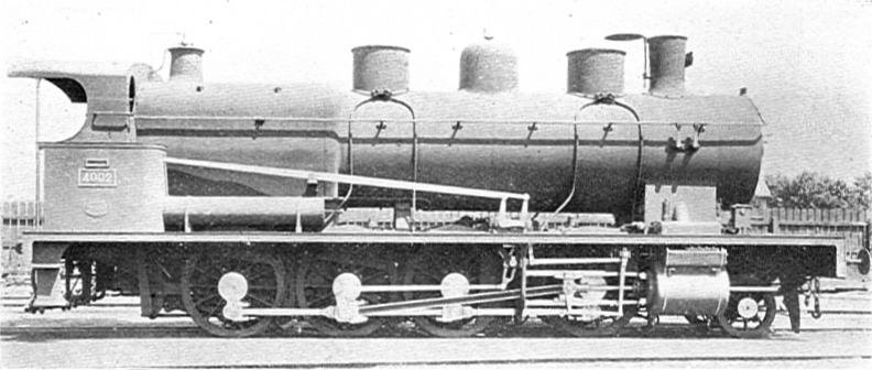 Fig. 1 The "Consolidation" in Europe and America Midi railway